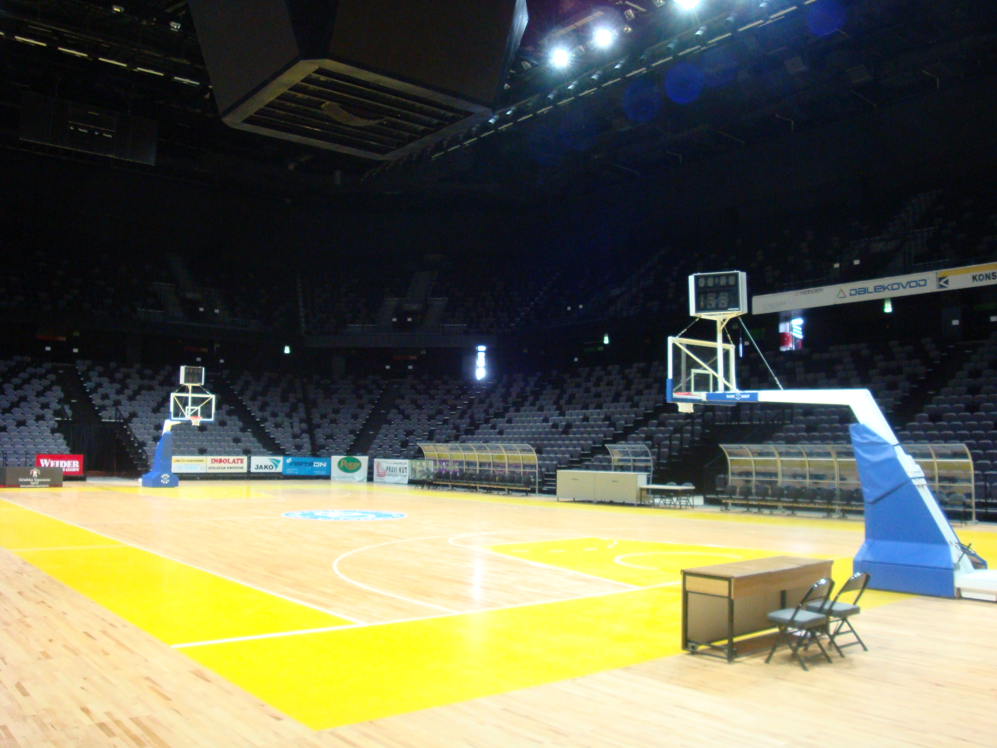 Spaladium_Arena_View_Floor_Level